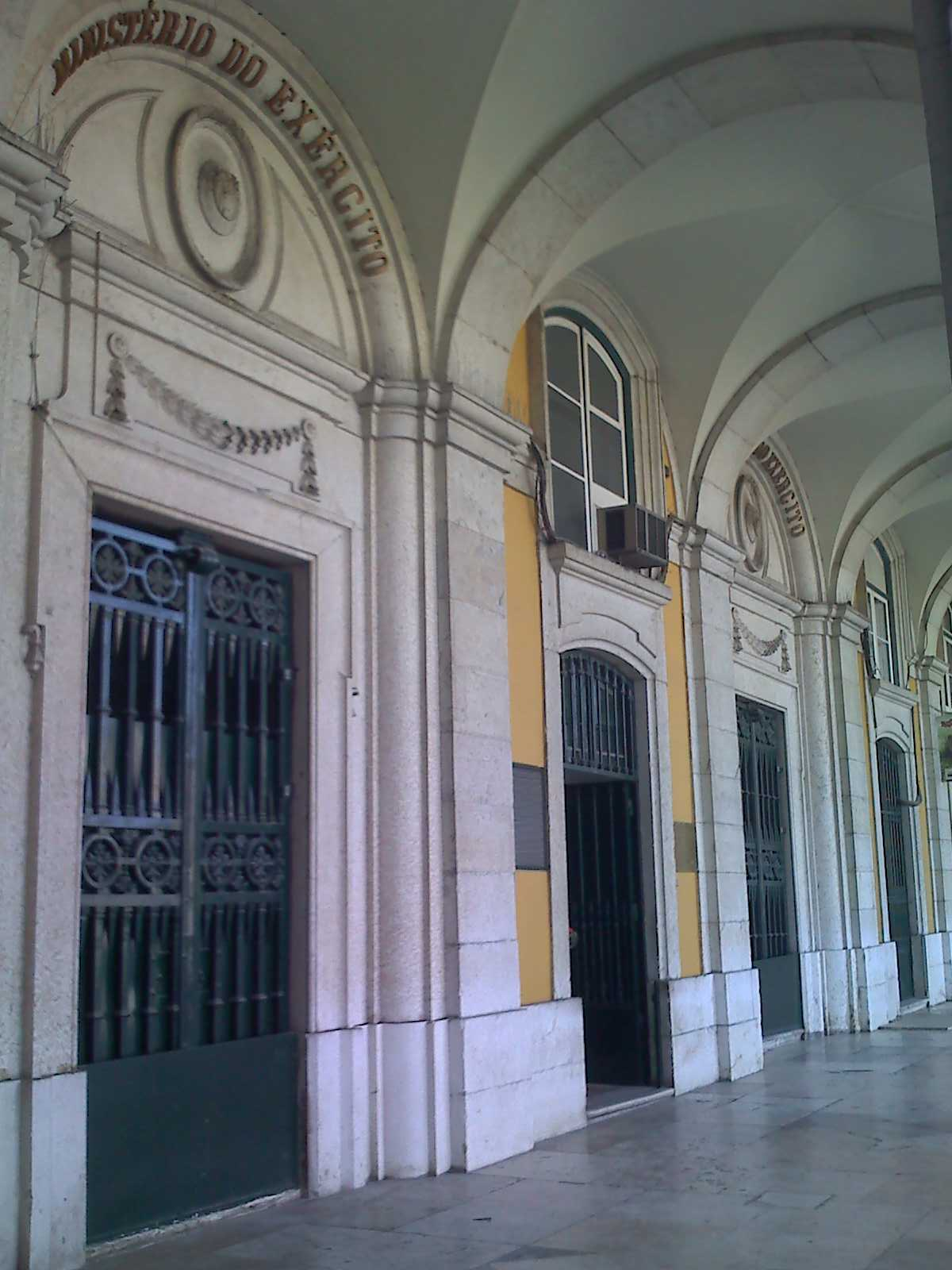 Entrance of former Portuguese War and Army ministry at Terreiro do Paço - Lisbon